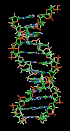 Static thumb frame of Animation of the structure of a section of DNA. The bases lie horizontally between the two spiraling strands.